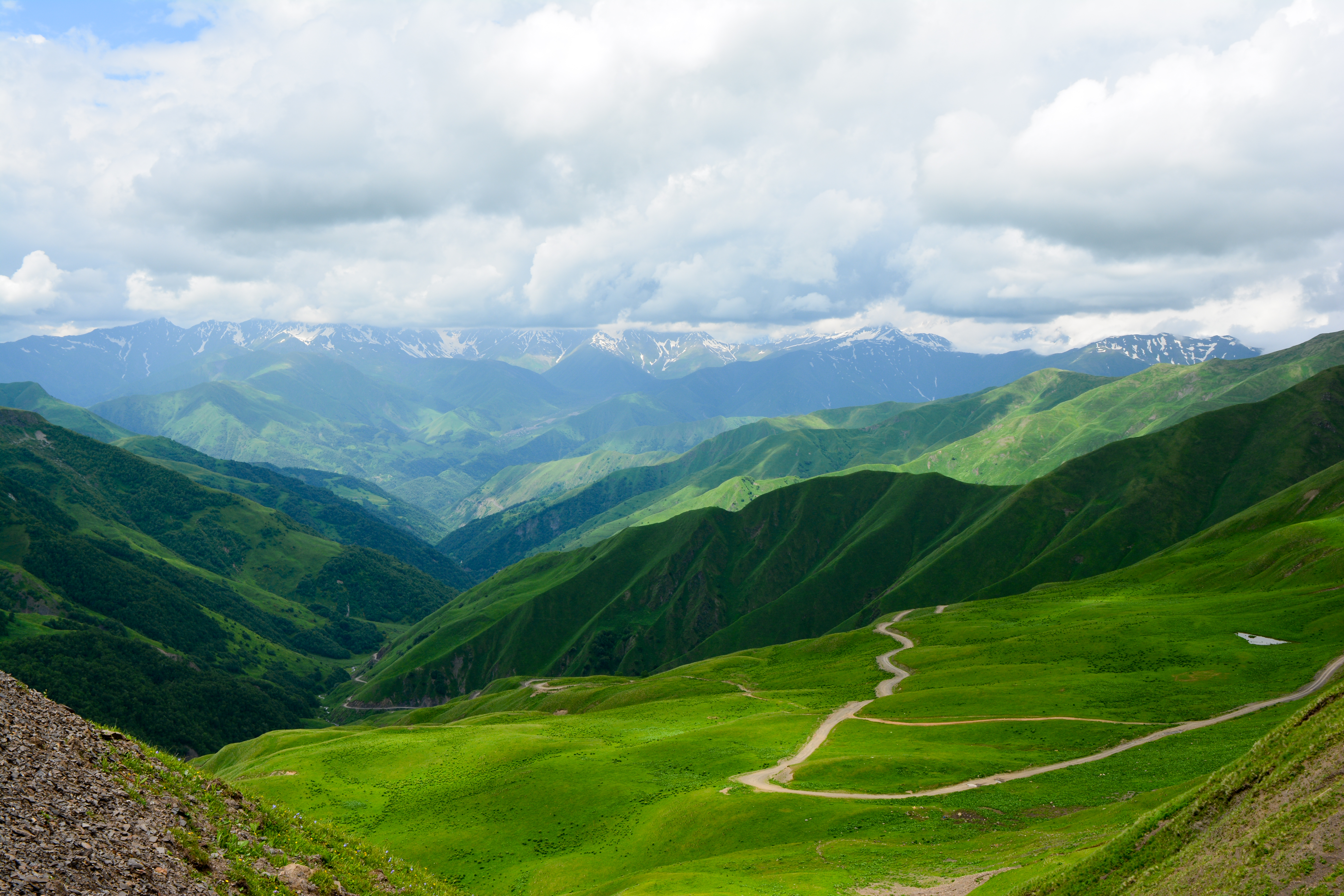 Datvisjvari — pass in Georgia, in Mtskheta-Mtianeti region, in Dusheti municipality. Located at the main watershed ridge of the Caucasus, 2676 m above sea level. It is made up of jurassic clays. Alpine meadows are decorated.